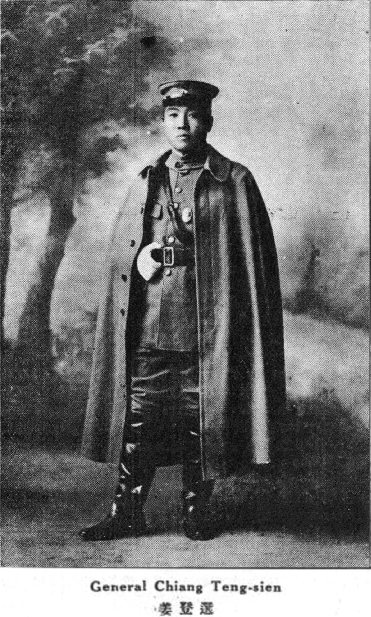 Jiang Dengxuan (1880 - 1925)